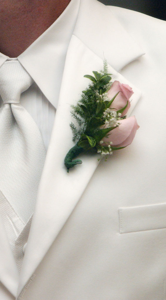 Close-up of a boutonniere.